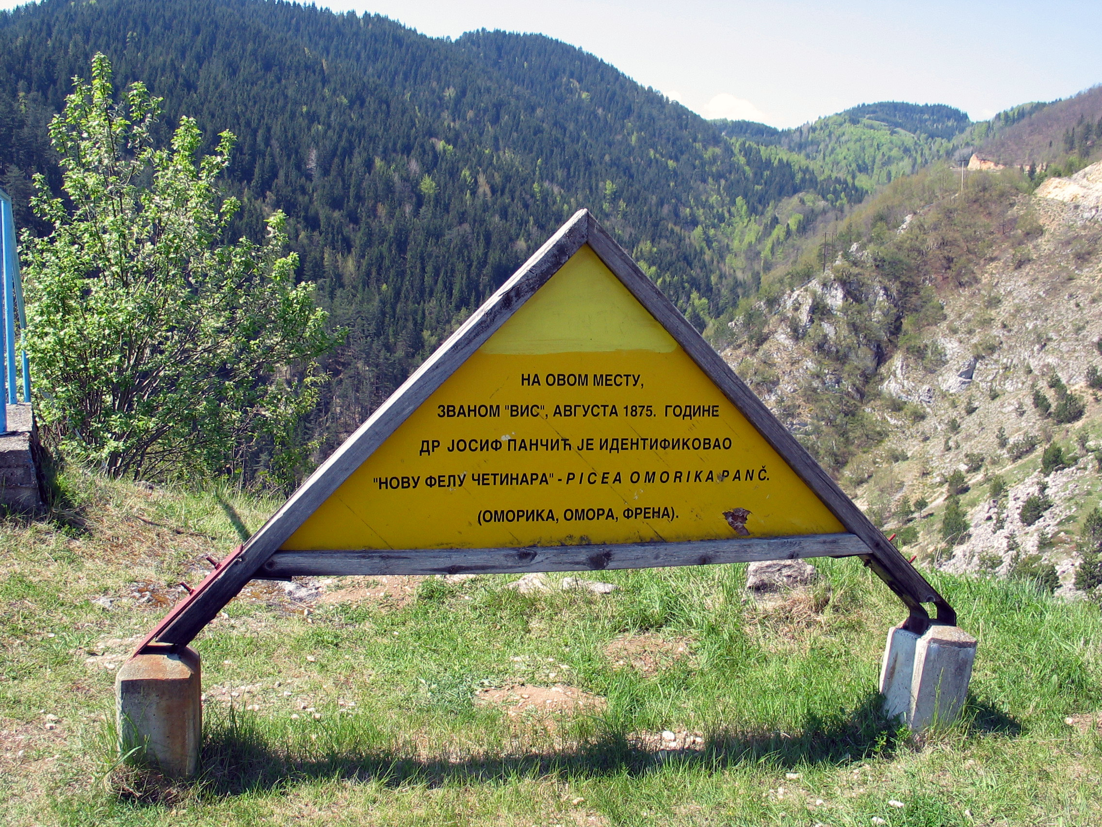 Place on Tara Mountain where Josif Pančić discovered new species of Picea omorika